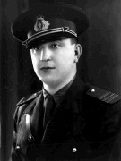 Gheorghe Arsenescu - Romanian anticommunist resistant, Făgăraș mountains area.